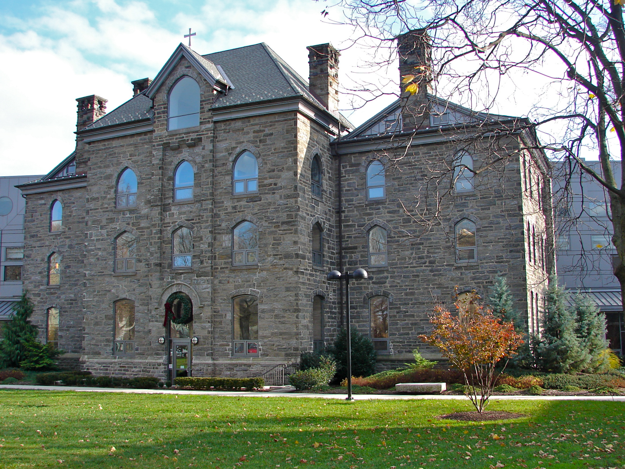 Brossman Center at the Lutheran Theological Seminary in Philadelphia, on Germantown Avenue (about 7300) in the Colonial Germantown historic District on the NRHP